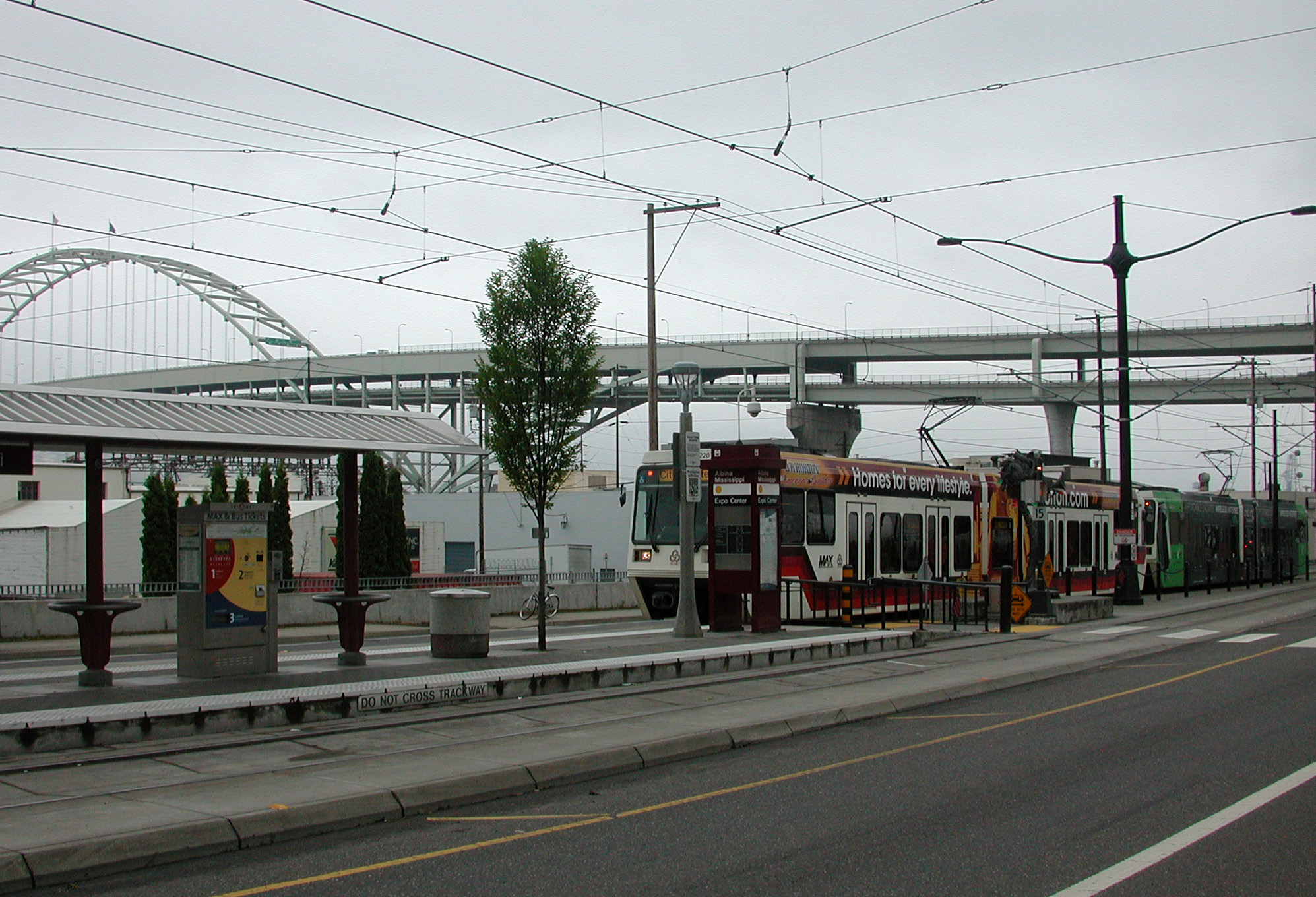 Albina/Mississippi station of the Metropolitan Area Express (MAX) light-rail system in Portland, Oregon, United States, looking northwest toward the Fremont Bridge over the Willamette River